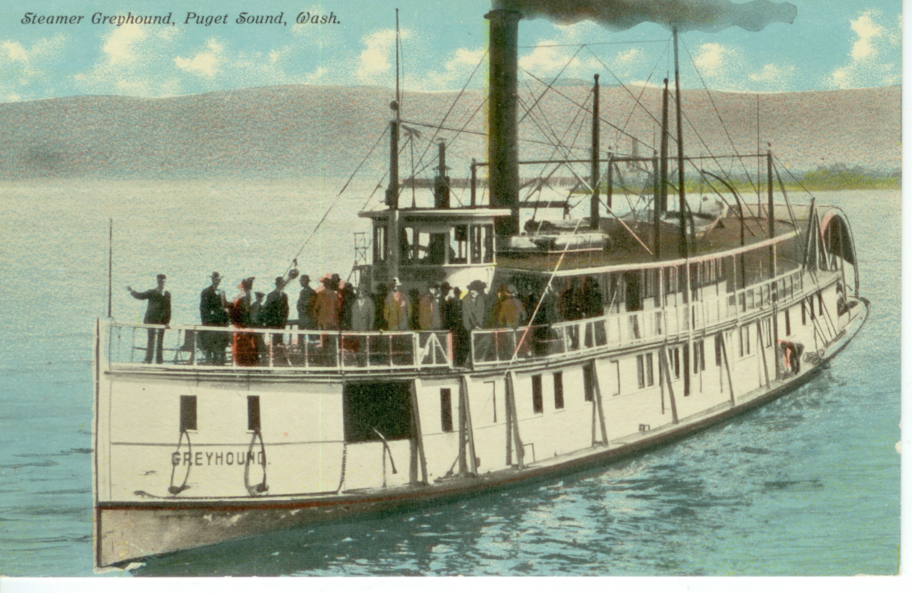 Sternwheeler Greyhound on Puget Sound, sometime before 1915